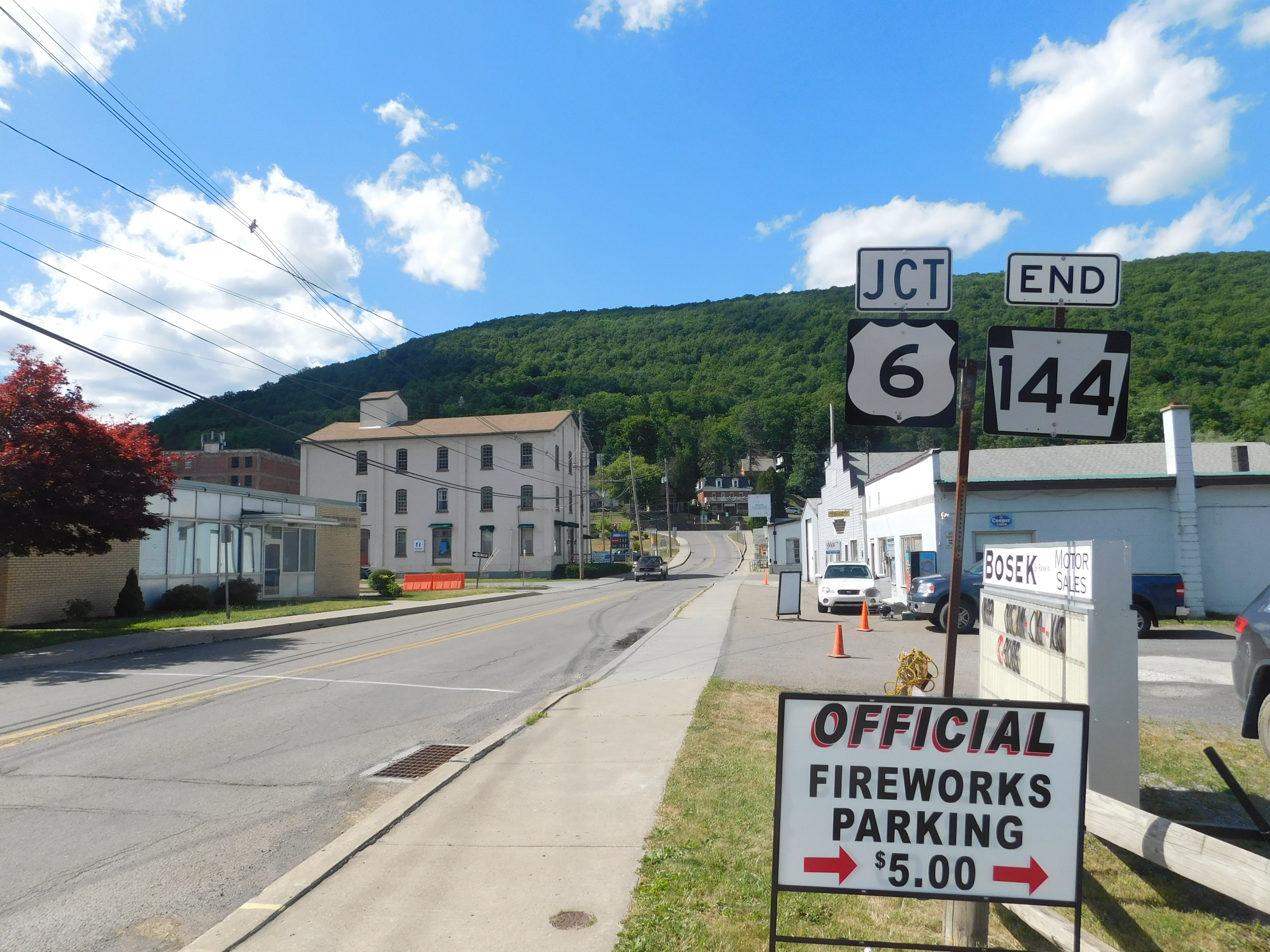 PA 144 northbound in Galeton, Pennsylvania.